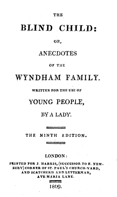 Title Page of children's book by Elizabeth Pinchard